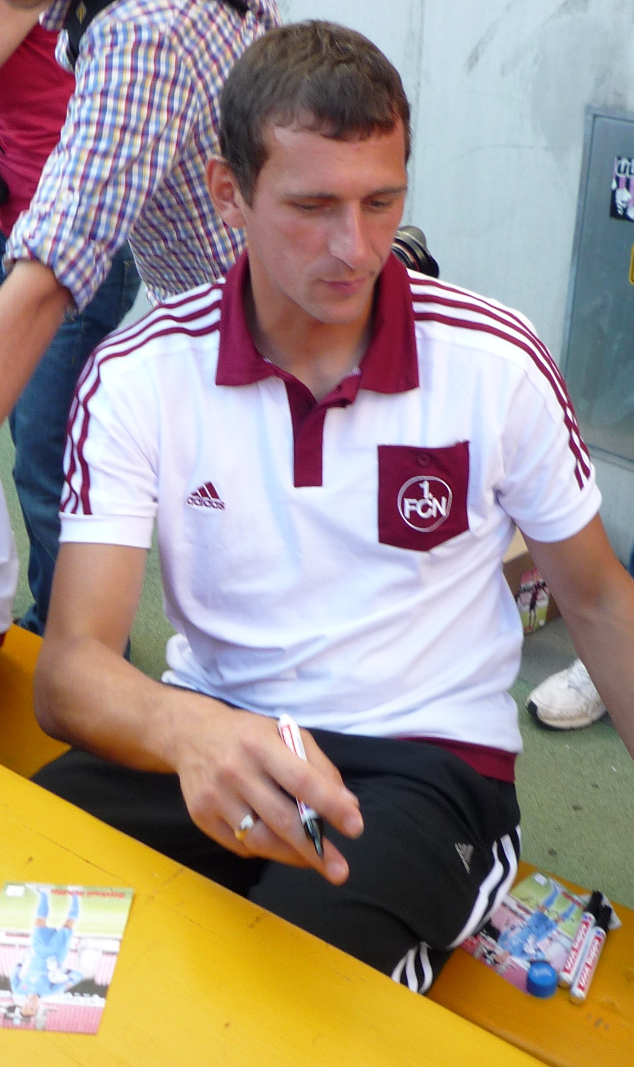 The Goalkeeper from FC Nuremberg